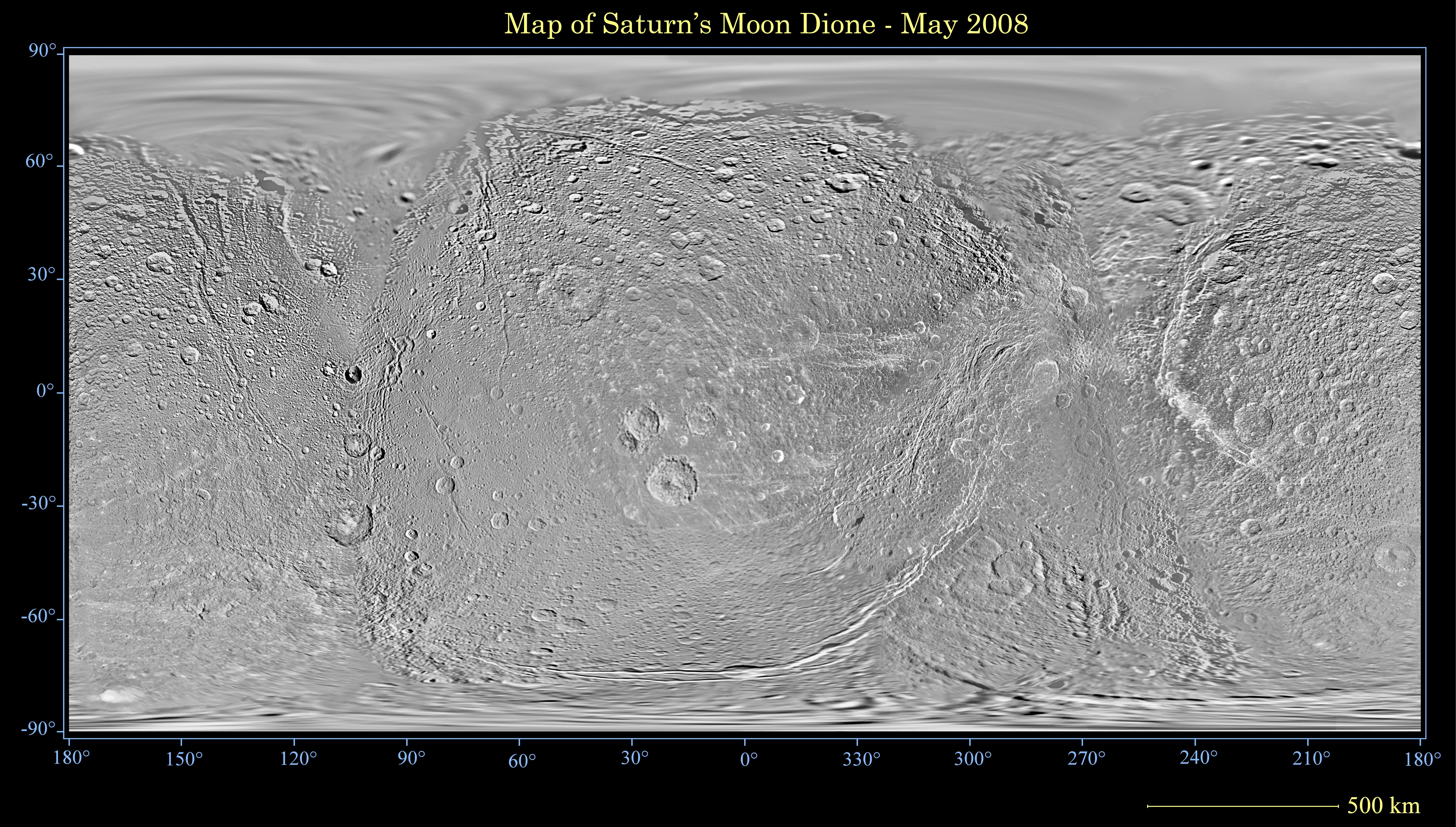 This global map of Saturn's moon Dione was created using images taken during Cassini spacecraft flybys, with Voyager images filling in the gaps in Cassini's coverage. An extensive system of bright ice cliffs created by tectonic fractures adorns the moon's trailing hemisphere. The map is a simple cylindrical (equidistant) projection and has a scale of 614 meters (2,014 feet) per pixel at the equator. The mean radius of Dione used for projection of this map is 562 kilometers (349 miles). This updated map has been shifted west by 0.6 degrees of longitude, compared to the previously released Cassini product (PIA08341), in order to conform to the International Astronomical Union longitude system convention for Dione. The Cassini-Huygens mission is a cooperative project of NASA, the European Space Agency and the Italian Space Agency. The Jet Propulsion Laboratory, a division of the California Institute of Technology in Pasadena, manages the mission for NASA's Science Mission Directorate, Washington, D.C. The Cassini orbiter and its two onboard cameras were designed, developed and assembled at JPL. The imaging operations center is based at the Space Science Institute in Boulder, Colo.